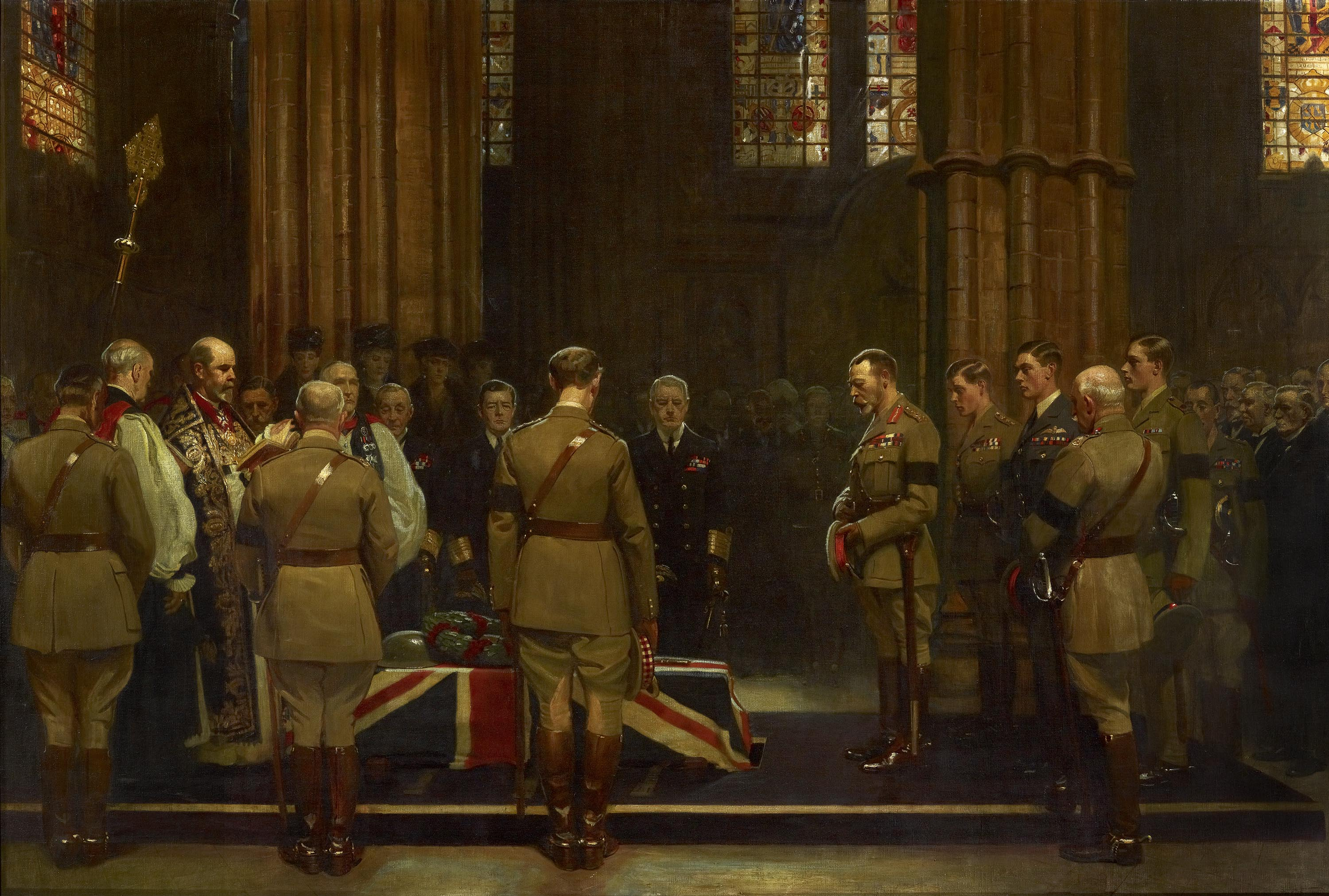 Buried in Westminster Abbey on 11 November 1920, the Unknown Warrior symbolizes all those who died for their country in the First World War, particularly those who have no known grave. The body is that of an unidentified serviceman disinterred from France. Present at the burial ceremony were leading politicians, senior military figures and members of the Royal Family led by King George V. The artist Frank O. Salisbury attended the burial and made a sketch of the event. He used the sketch as the basis for this large painting, which hangs in Committee Room 10 in the Houses of Parliament.